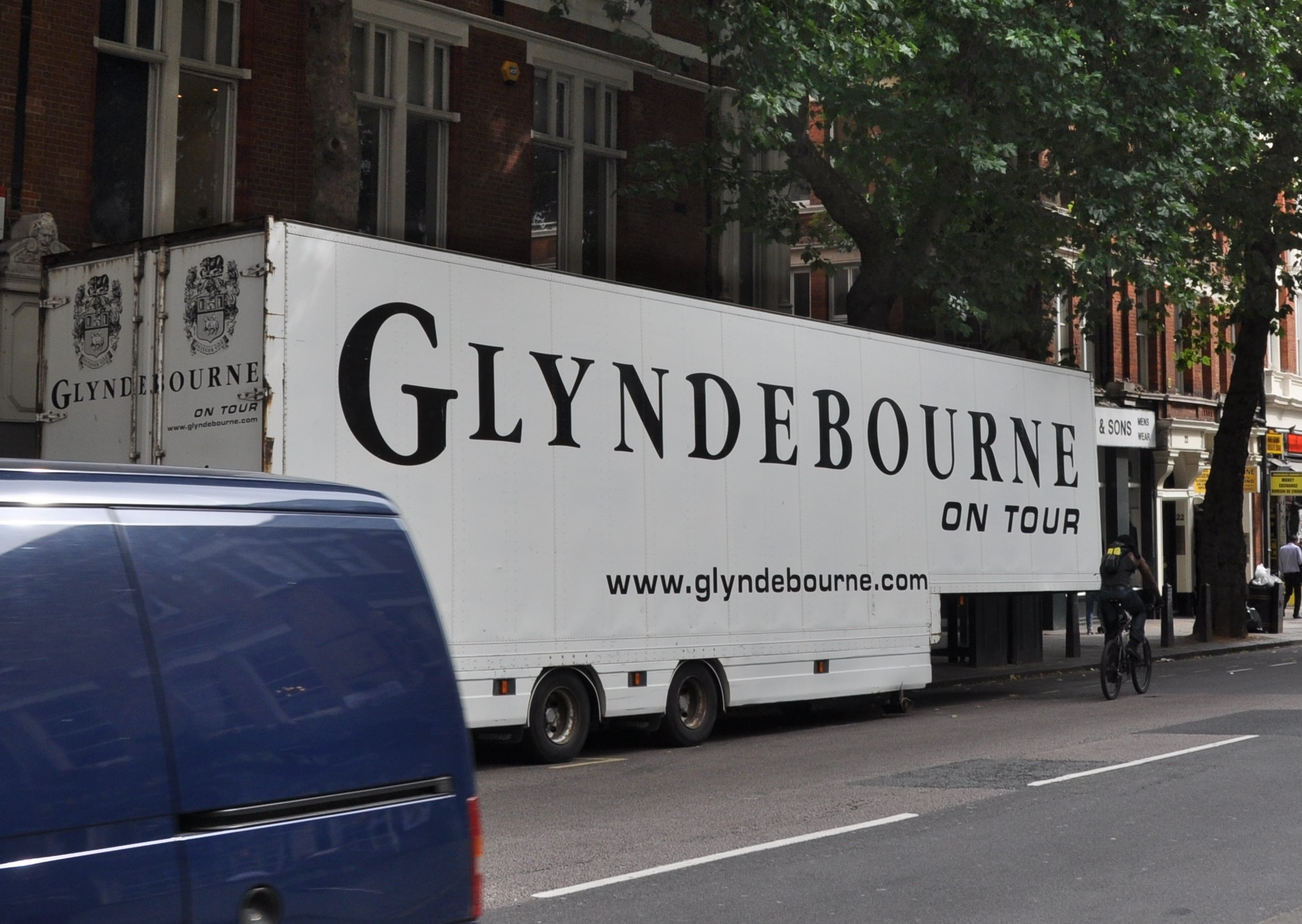 Glyndebourne On Tour trailer unit in London, England